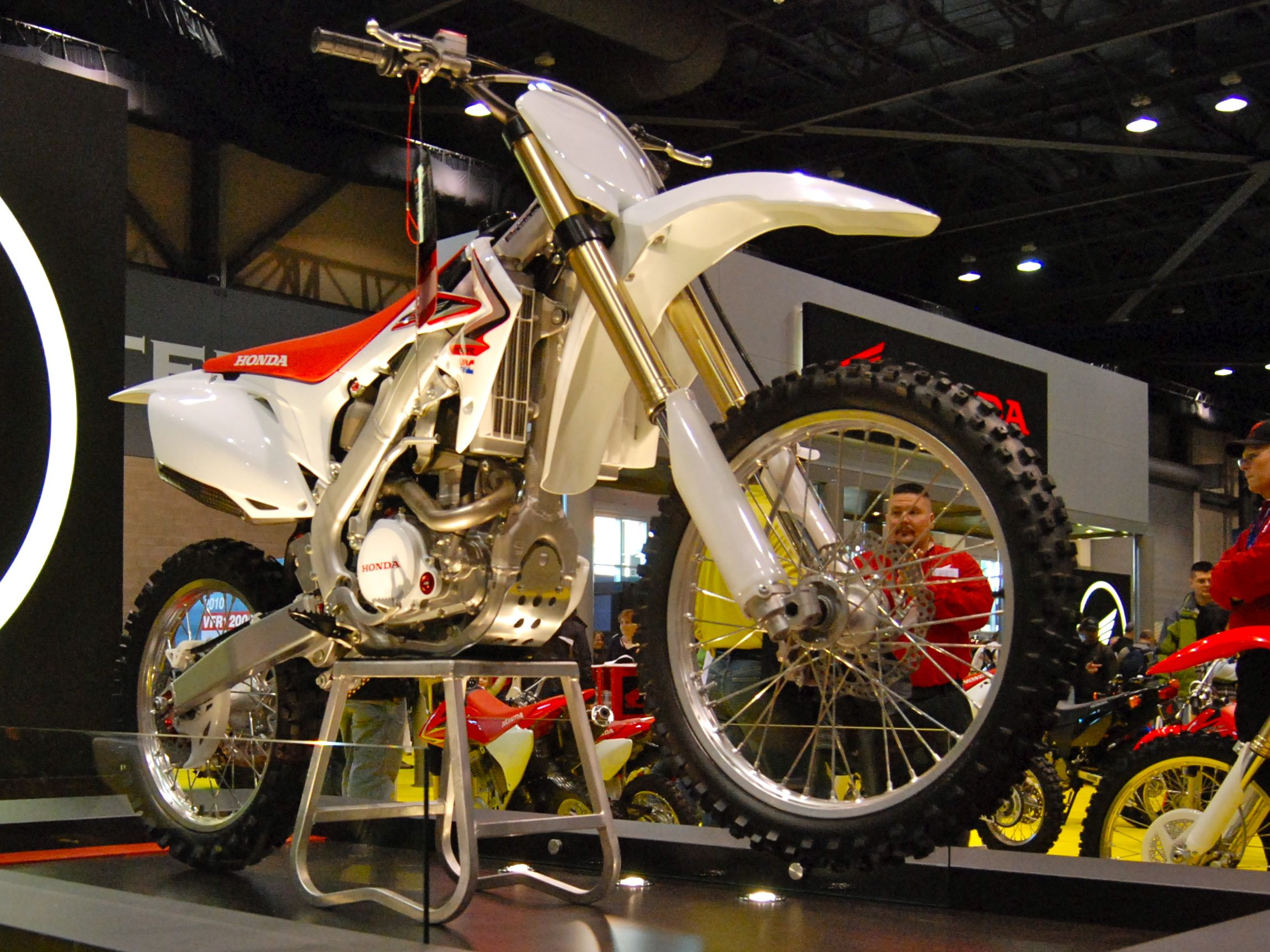 2010 Honda CRF250R at the 2009 Seattle International Motorcycle Show